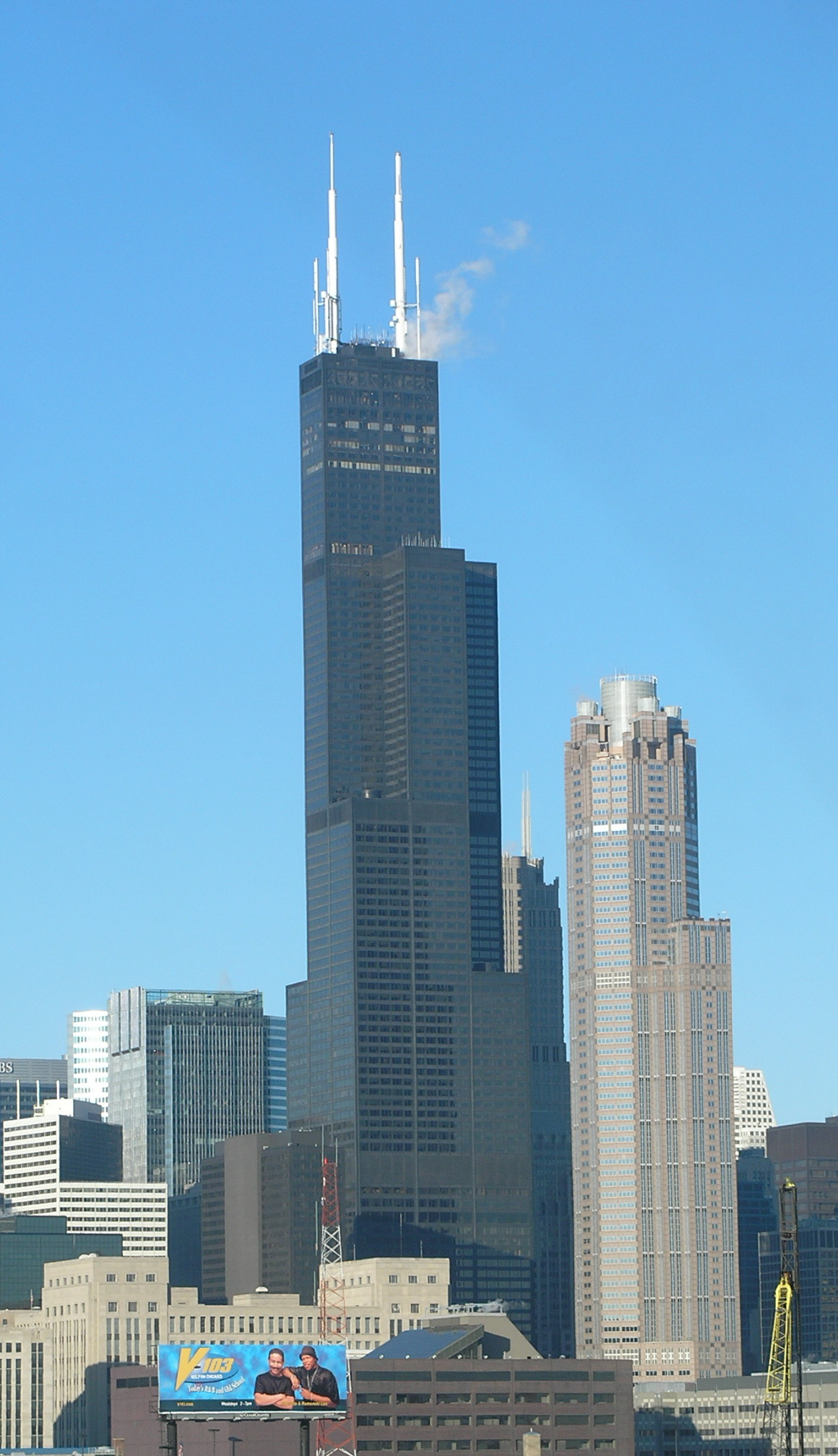 View of the Sears Tower from a highway.